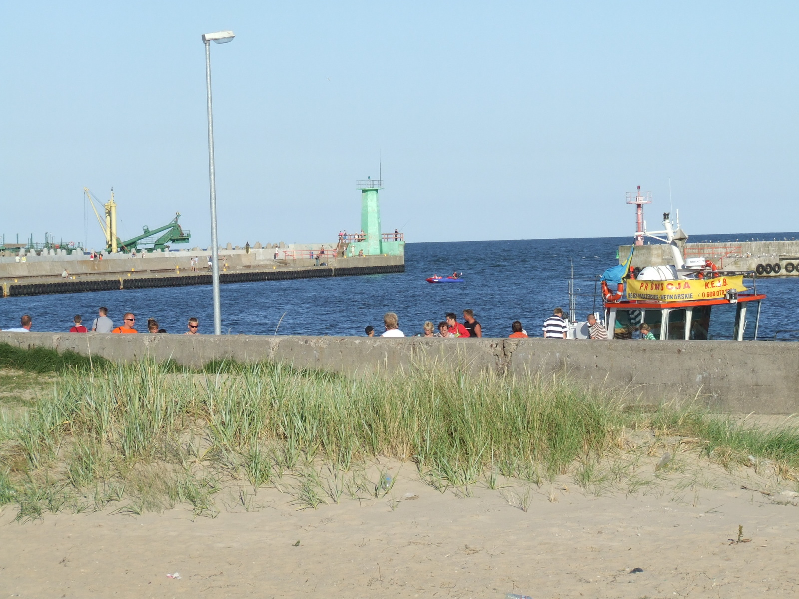 harbour in Wladyslawowo, Poland